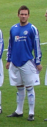 Phil Turnbull. Image cropped from original at flickr.